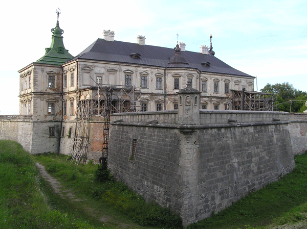 The castle in Podhorce (Ukraine).